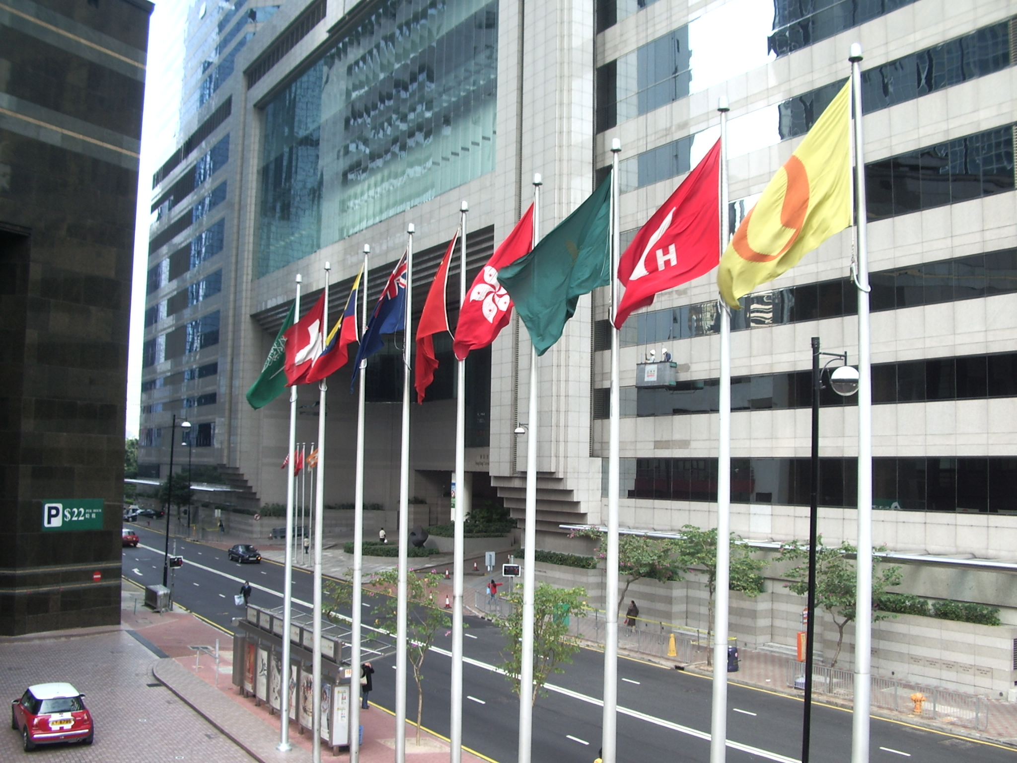 Flags outside Central Plaza, Wan Chai, Hong Kong, facing Harbour Road. Taken on 7 January 2006 by Carlsmith. From left to right, the flags are respectively of Saudi Arabia, Switzerland, Venezuela, New Zealand, People's Republic of China, Hong Kong, Central Plaza, Sun Hung Kai and Sino Group.